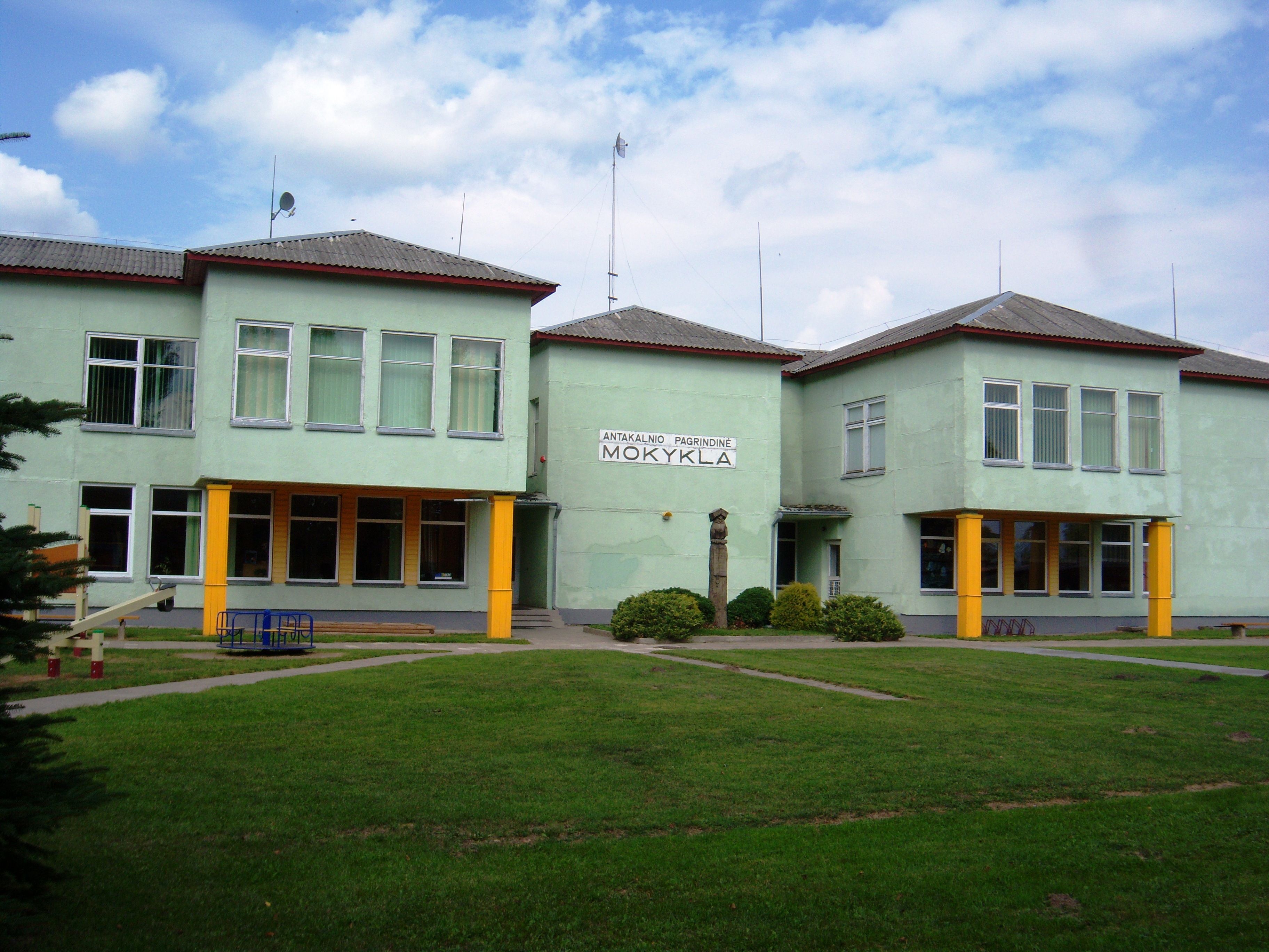 Antakalnis Basic School, Kaišiadorys District, Lithuania